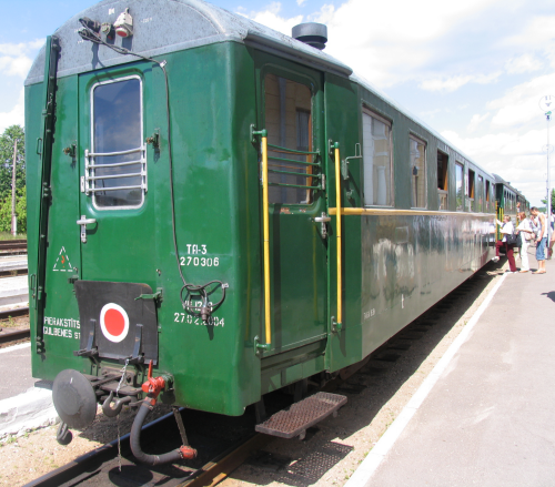 Extra train of Bānītis in Gulbene, Latvia